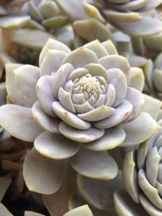 觀音草 Peristrophe baphica 石蓮花 風車草 觀音石蓮花 石膽草 蓮座草 東美人 玉蓮